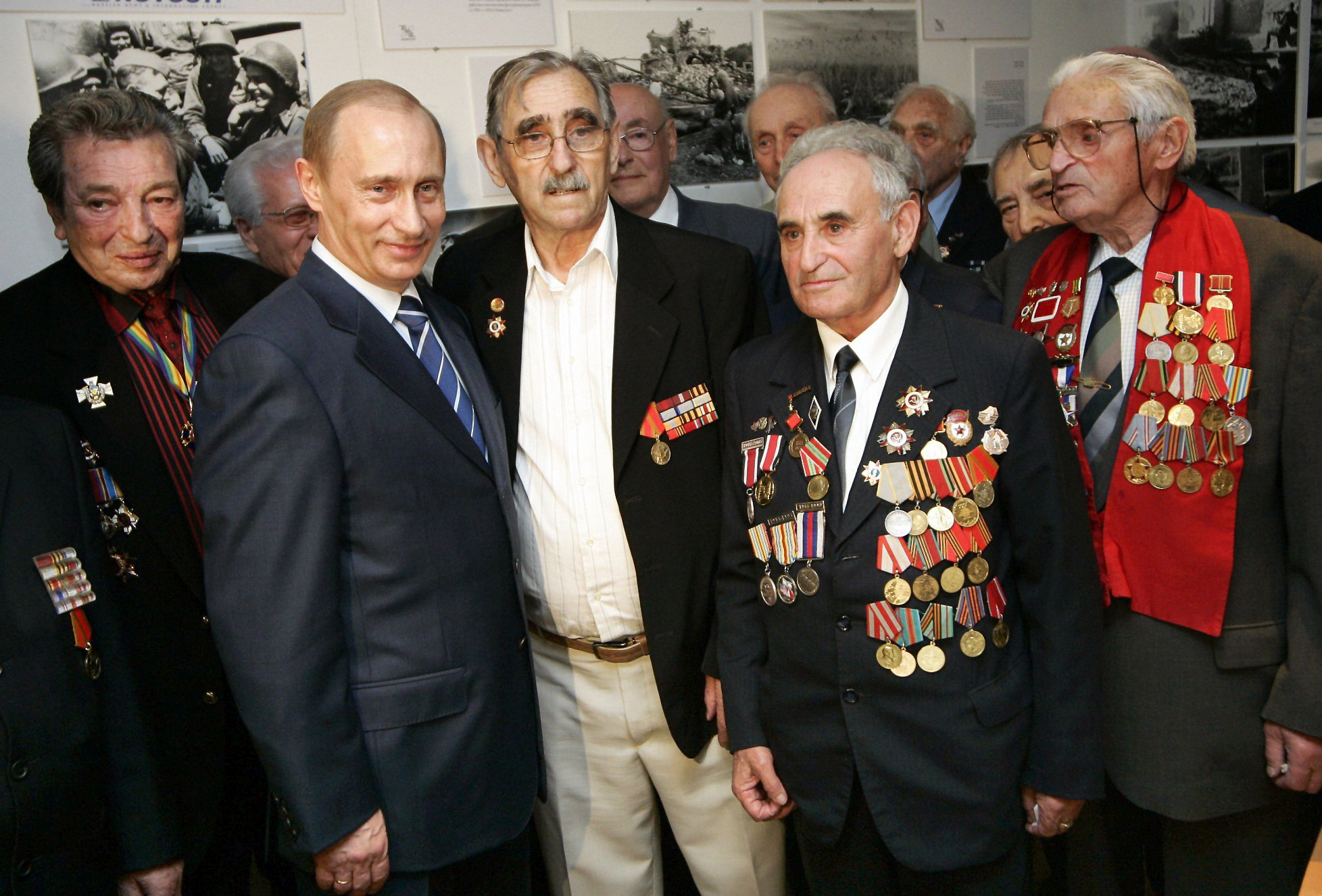 JERUSALEM. Meeting with veterans of the Great Patriotic War living in Israel.